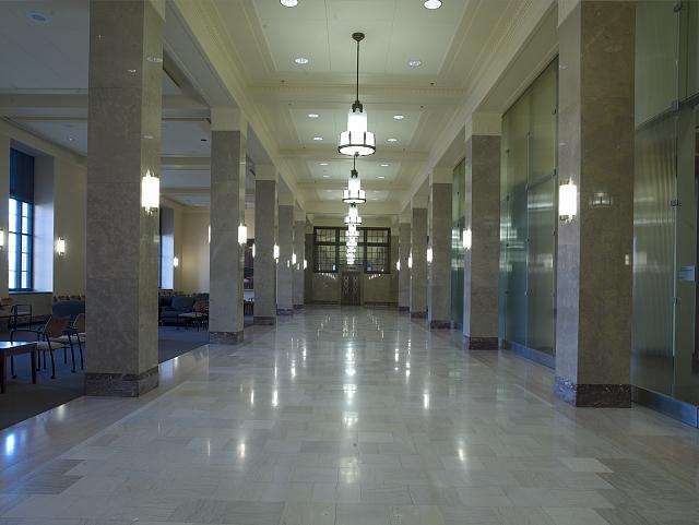 The first floor lobby of the United States Courthouse in Davenport, Iowa